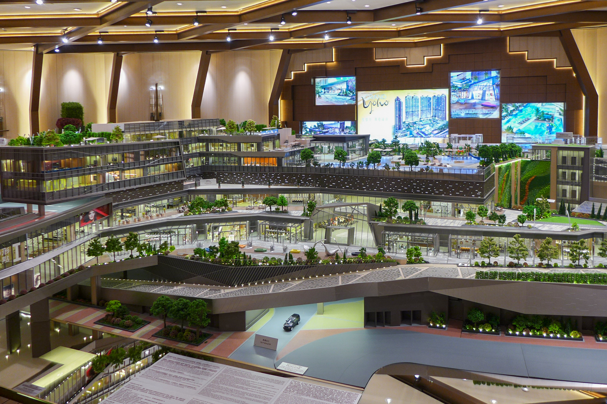 Grand Retail and clubhouse model